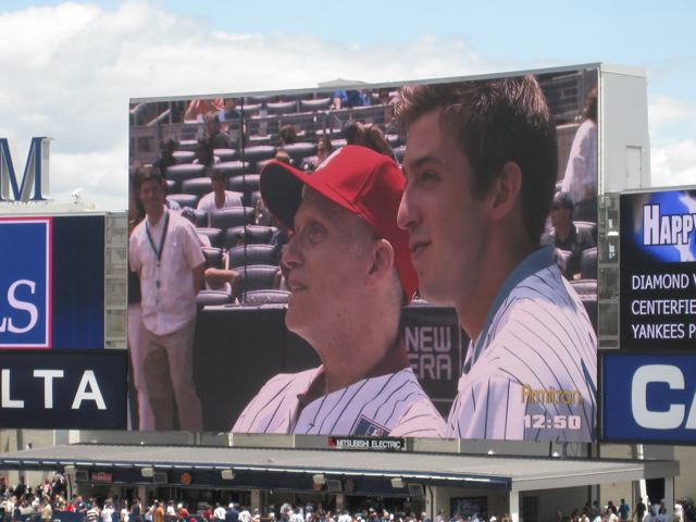 Michael Goldsmith and his son Austen at MLB4ALS event OTRS Pending. Photo is personal property of Austen Goldsmith, who has given permission for use of this photo on Wikipedia and everywhere.